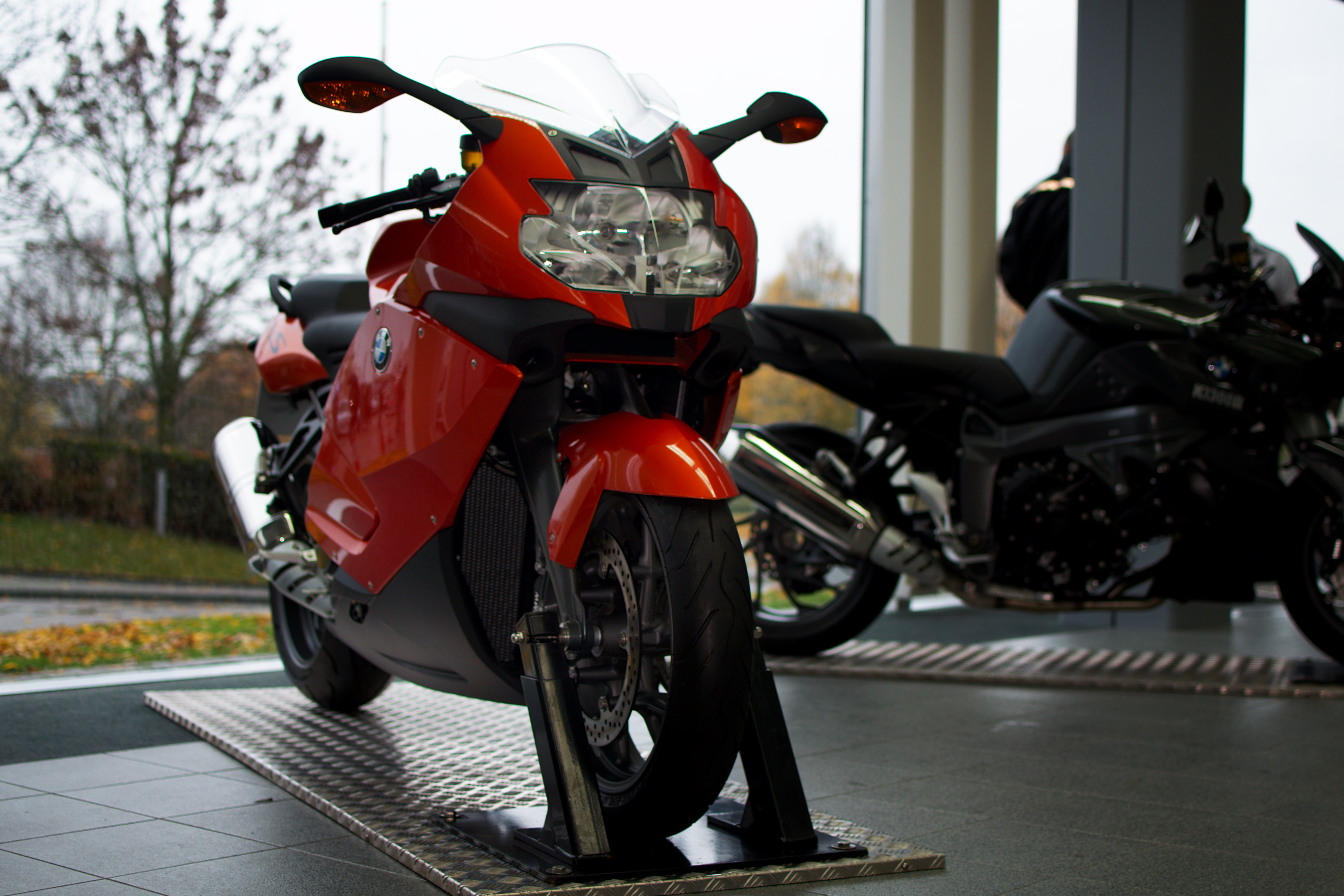 BMW K1300S taken at the Pistonheads Sunday Service at BMW UK.